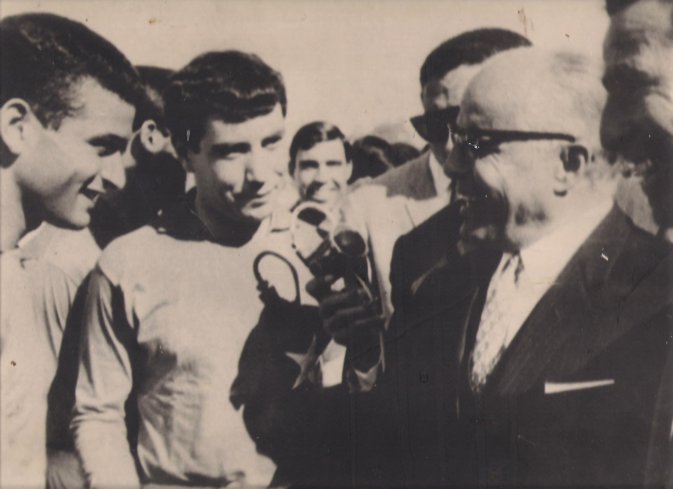 habib akid